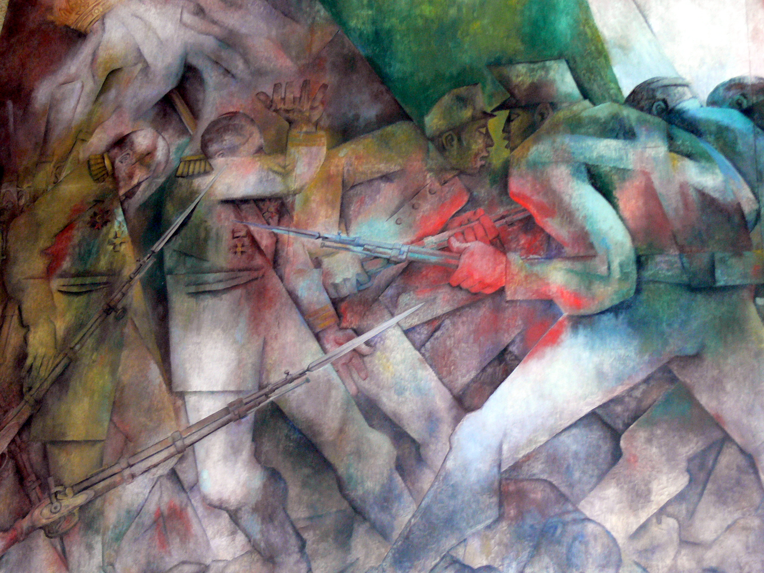 Merida - Palacio de Gobierno - Murals by Fernando Castro Pacheco: In 1867 Mérida gets conquered by republican Mexican troups ( detail )